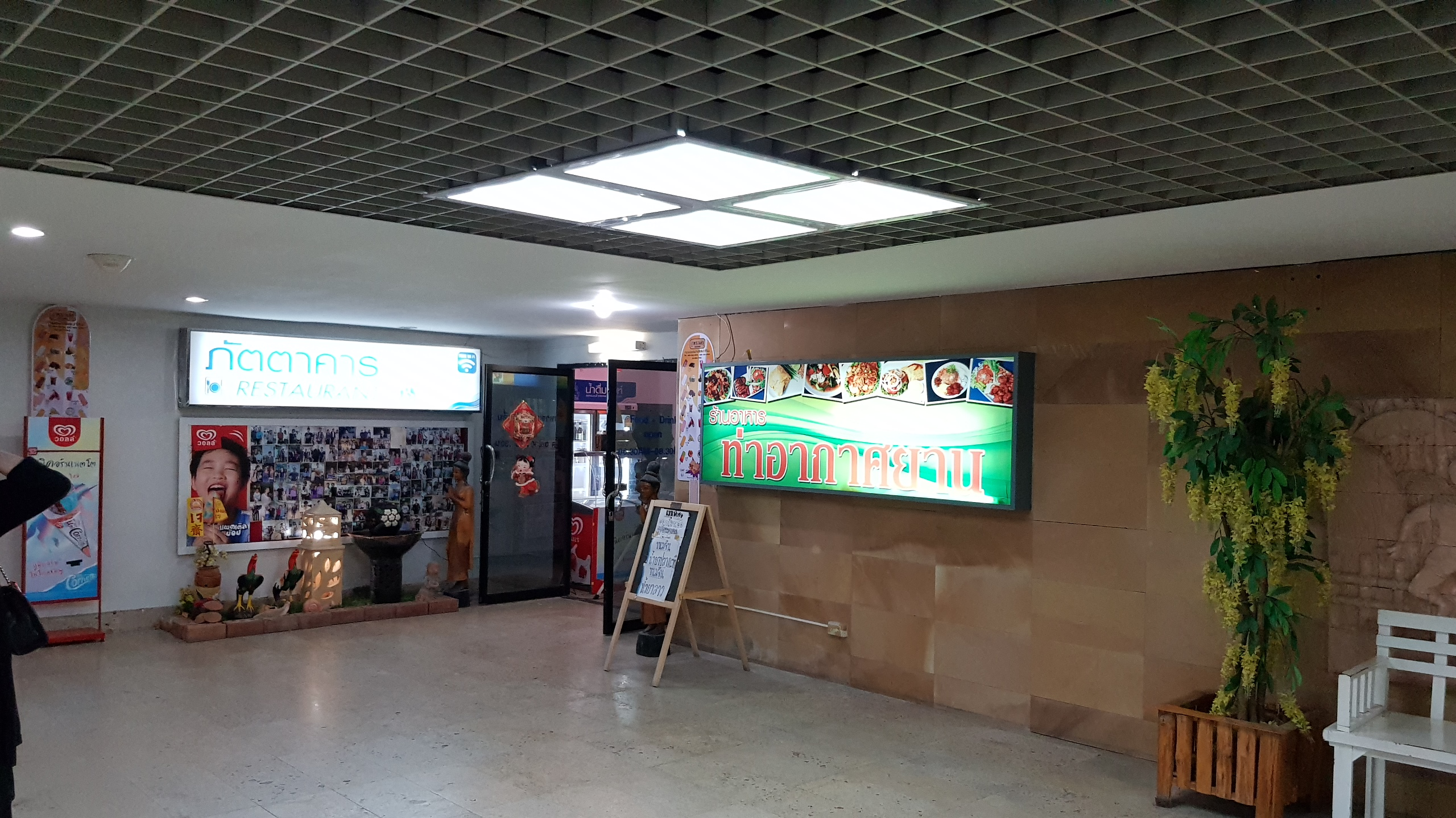 The Restaurant of the 3rd floor